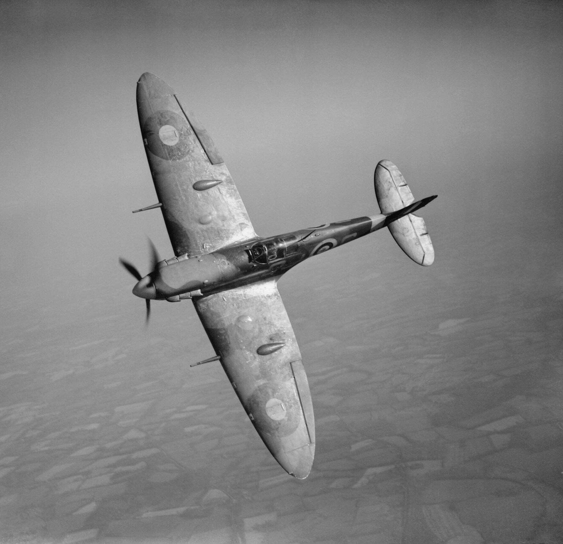 Supermarine Spitfire Mk Vb of No. 92 Squadron, 19 May 1941. This aircraft, serial R6923, was shot down by a Messerschmitt Bf 109 on 22 June 1941. Spitfire Mark VB, R6923 ‘QJ-S’, of No 92 Squadron RAF based at Biggin Hill, Kent, banking towards the photographing aircraft. R6923 was originally a Mark I, converted to a Mark V after serving with No. 19 Squadron and No. 7 Operational Training Unit in 1940. It was shot down over the sea by a Messerschmitt Bf 109 on 22 June 1941.